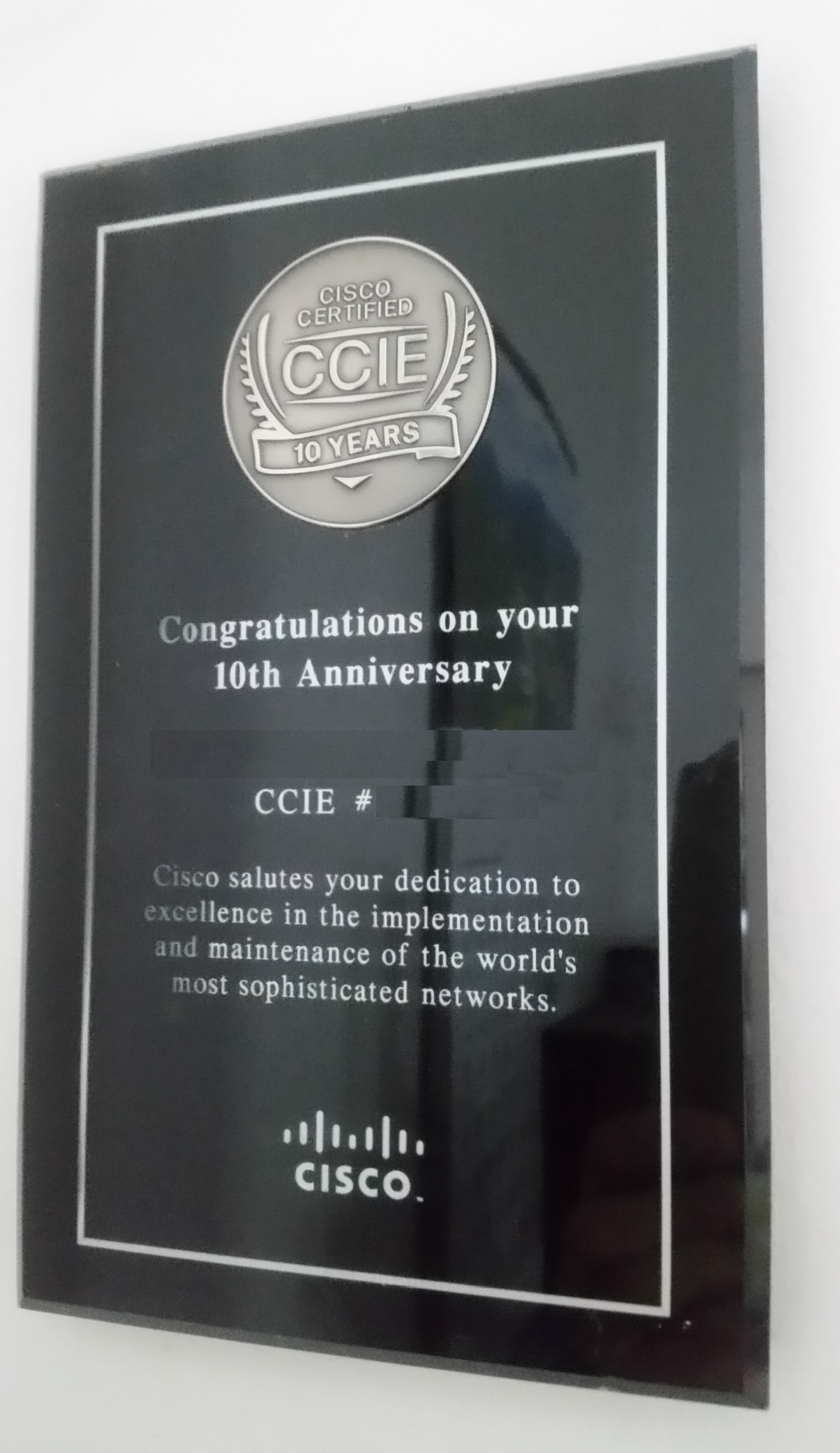 CCIE - 10 years plaque